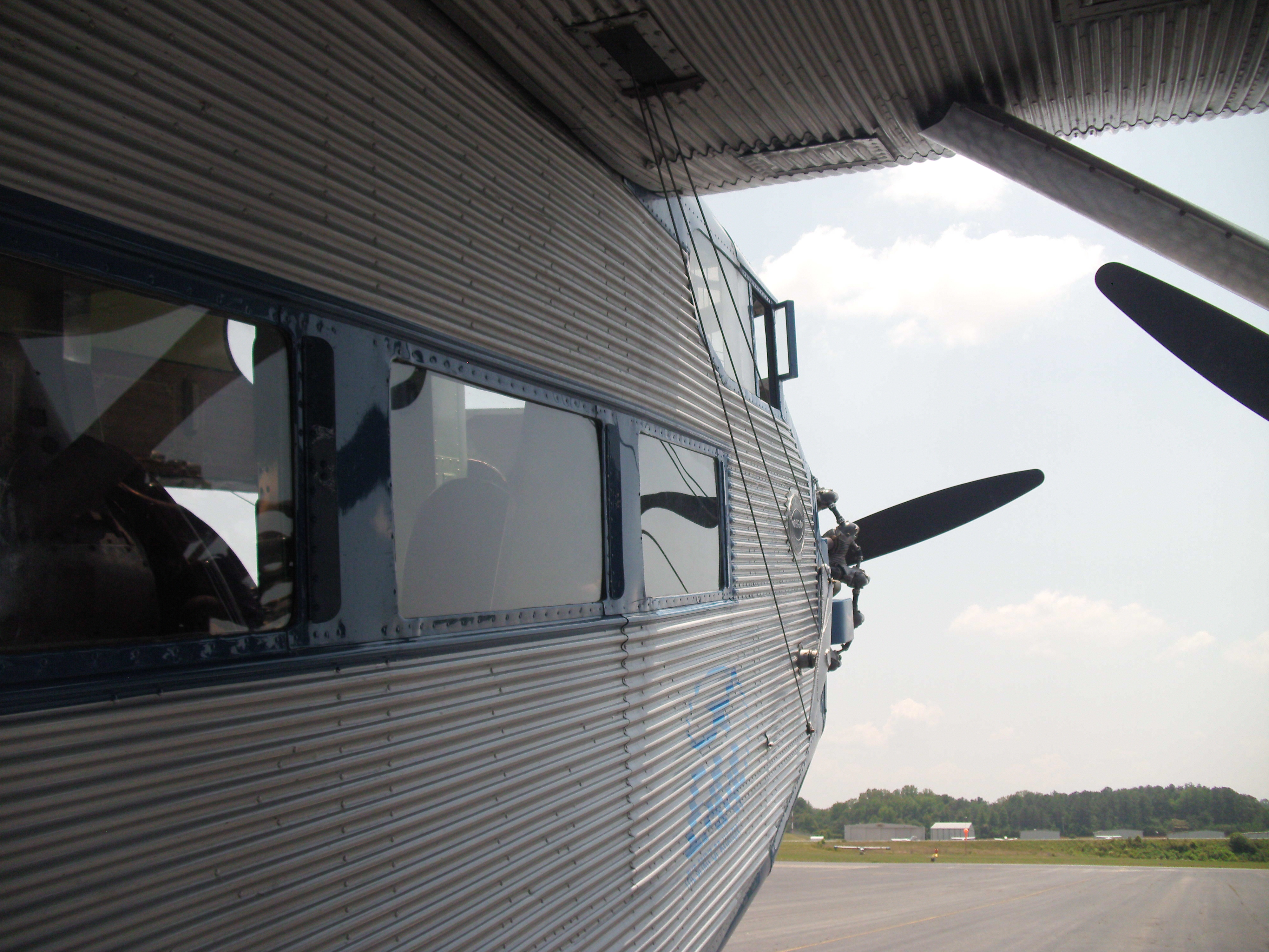 This image shows the externally mounted control wires of a Ford Trimotor aircraft, specifically NC8407.